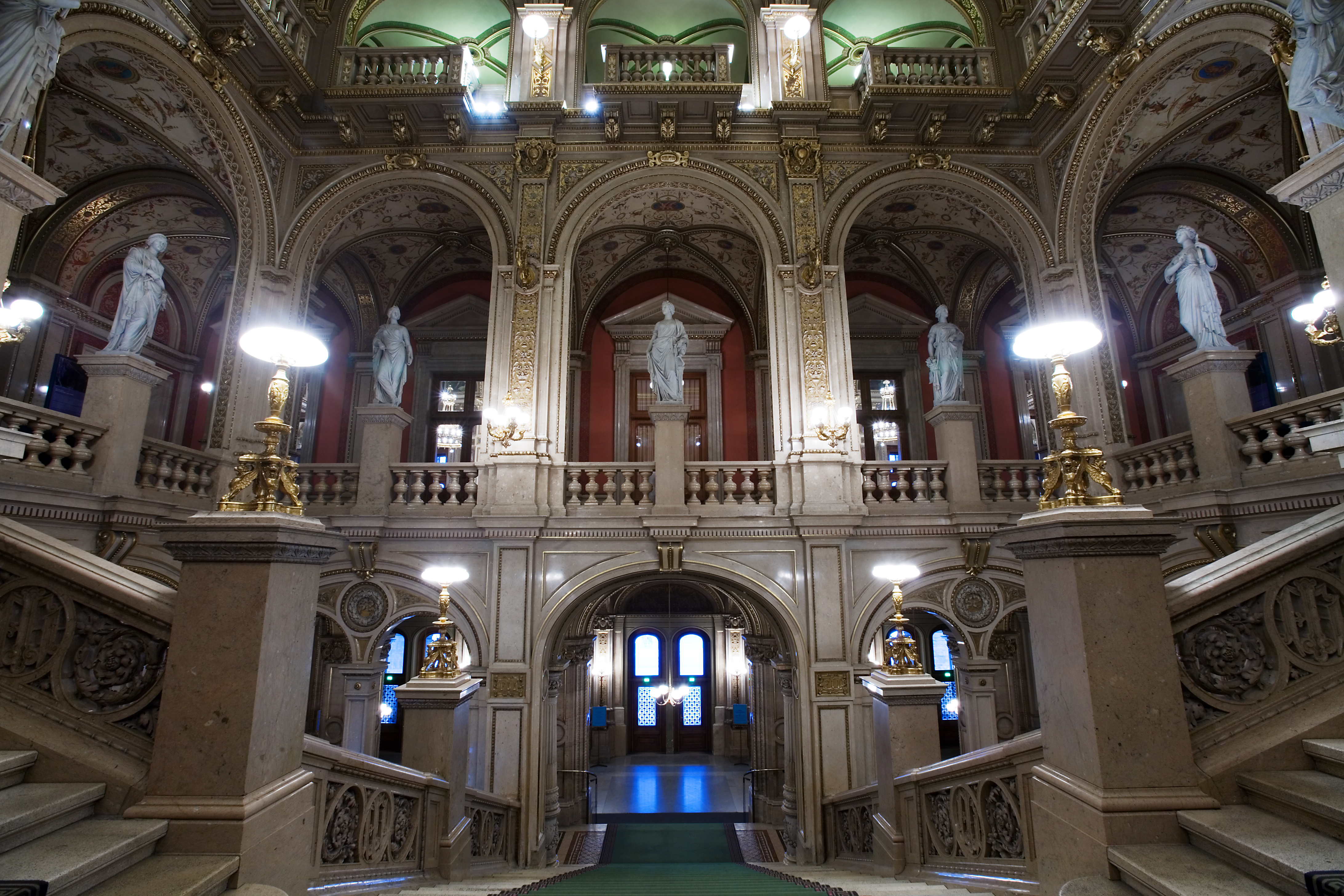 Vienna Opera main foyer and lobby, Vienna, Austria